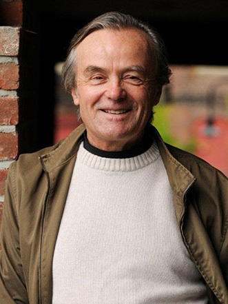 Carl Vigeland, a lecturer at UMass Amherst.